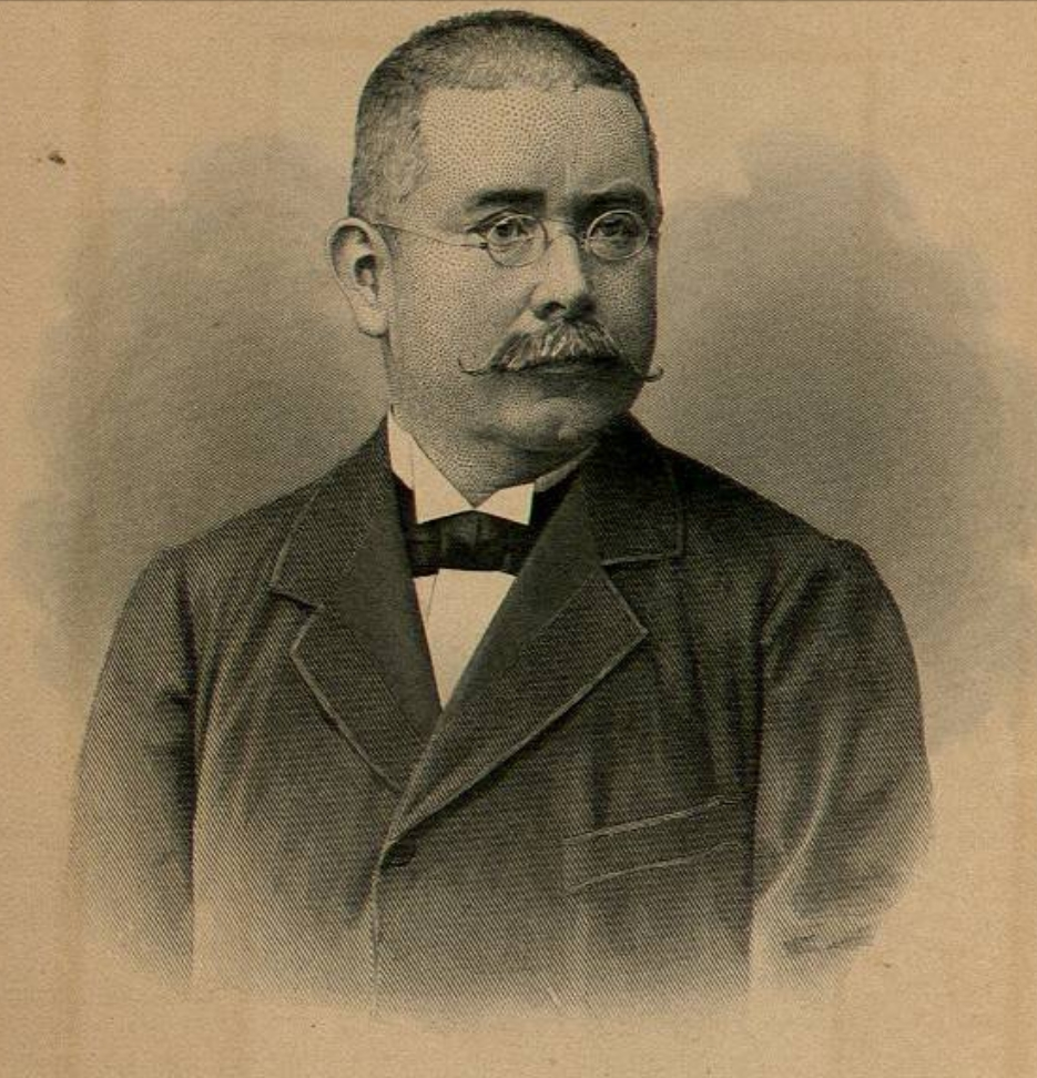 Victoriano Agüeros (1854-1911) lawyer, journalist, literary critic, writer and Mexican academic.